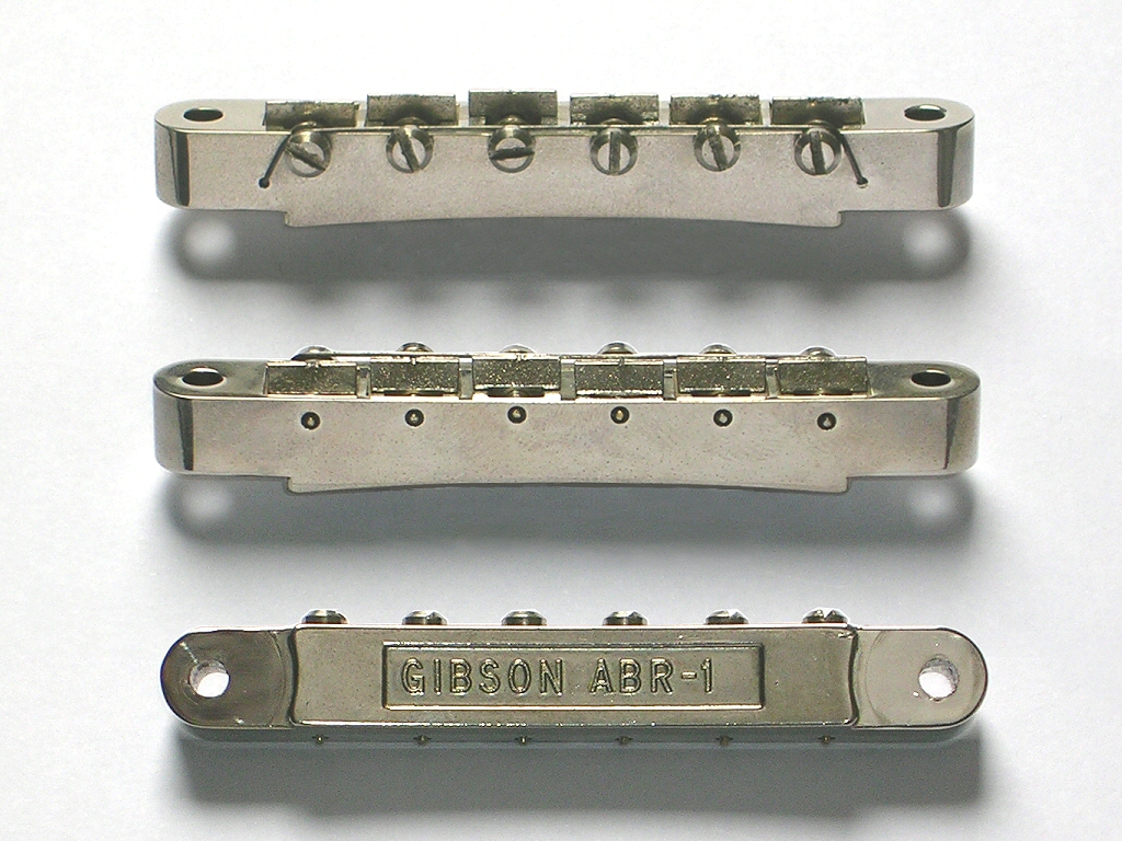 Cordier Tune-o-matic Standard ABR-1